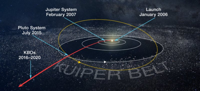 Journey of the New Horizons space probe through the Solar System and beyond.[1] The Kuiper Belt lies in the so-called "third zone" of our solar system, beyond the terrestrial planets (inner zone) and gas giants (middle zone). This vast region contains billions of objects, including comets, dwarf planets like Pluto and "planetesimals" like Ultima Thule. The objects in this region are believed to be frozen in time -- relics left over from the formation of the solar system. References ↑ The Johns Hopkins Applied Physics Laboratory (27 December 2018). All about Ultima: New Horizons flyby target is unlike anything explored in space. Science Daily. Retrieved on 5 January 2019.